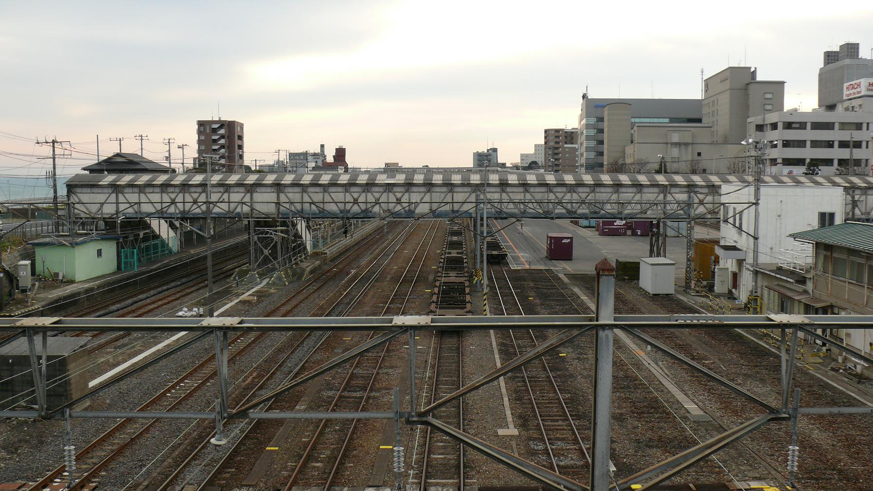 East Japan Railway Hitachi Station(Japan,Hitachi city).